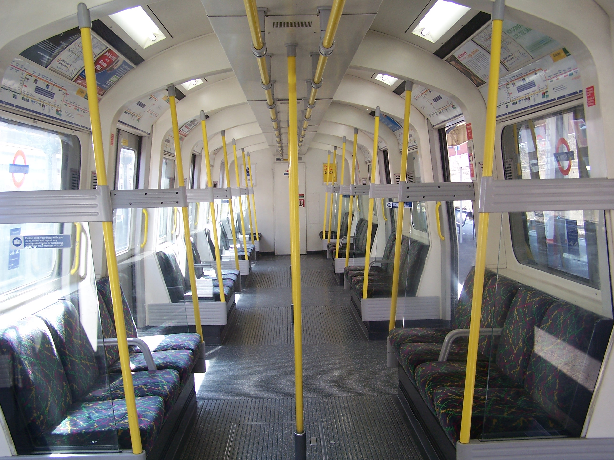 The refurbished interior of C69/77 Surface Stock Driving Motor vehicle